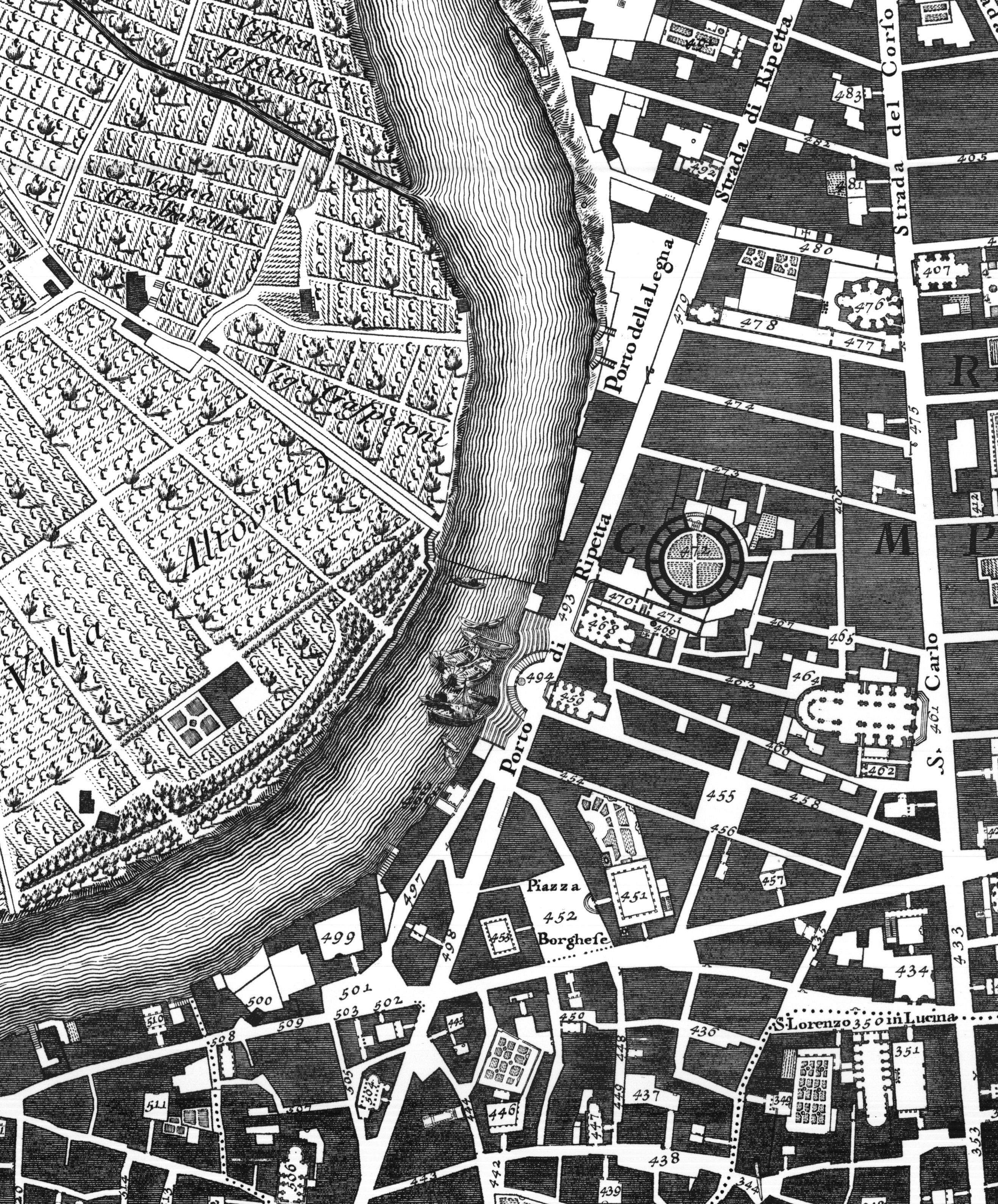 The New Plan of Rome by Giambattista Nolli part 2/12